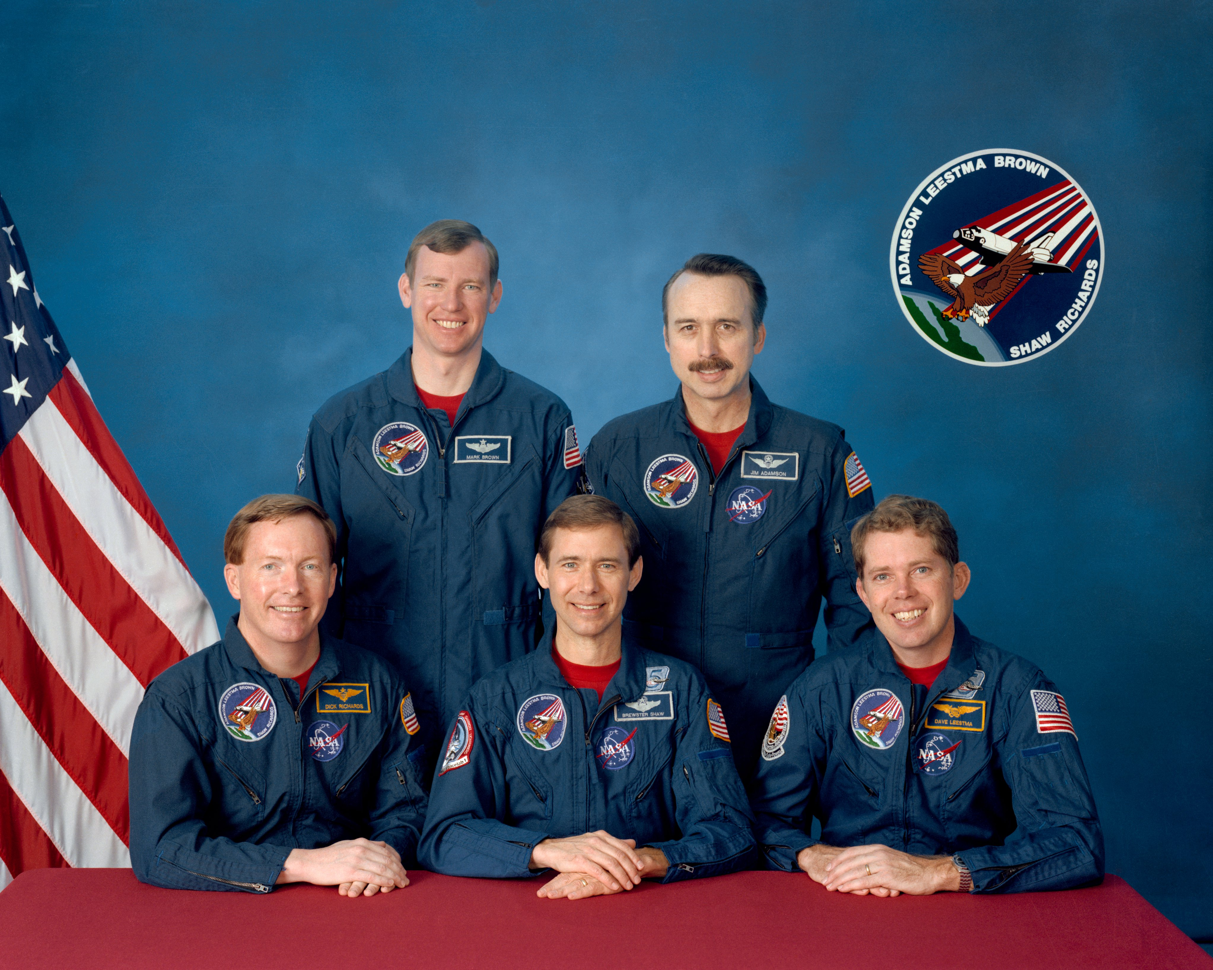 Five astronauts composed the STS-28 crew. Seated from left to right are Richard N. (Dick) Richards, pilot; Brewster H. Shaw, commander; and David C. Leestma, mission specialist 2. Standing, from left to right , are Mark N. Brown, mission specialist 3; and James C. (Jim) Adamson, mission specialist 1. Launched aboard the Space Shuttle Columbia on August 8, 1989, the STS-28 mission was the 4th mission dedicated to the Department of Defense.